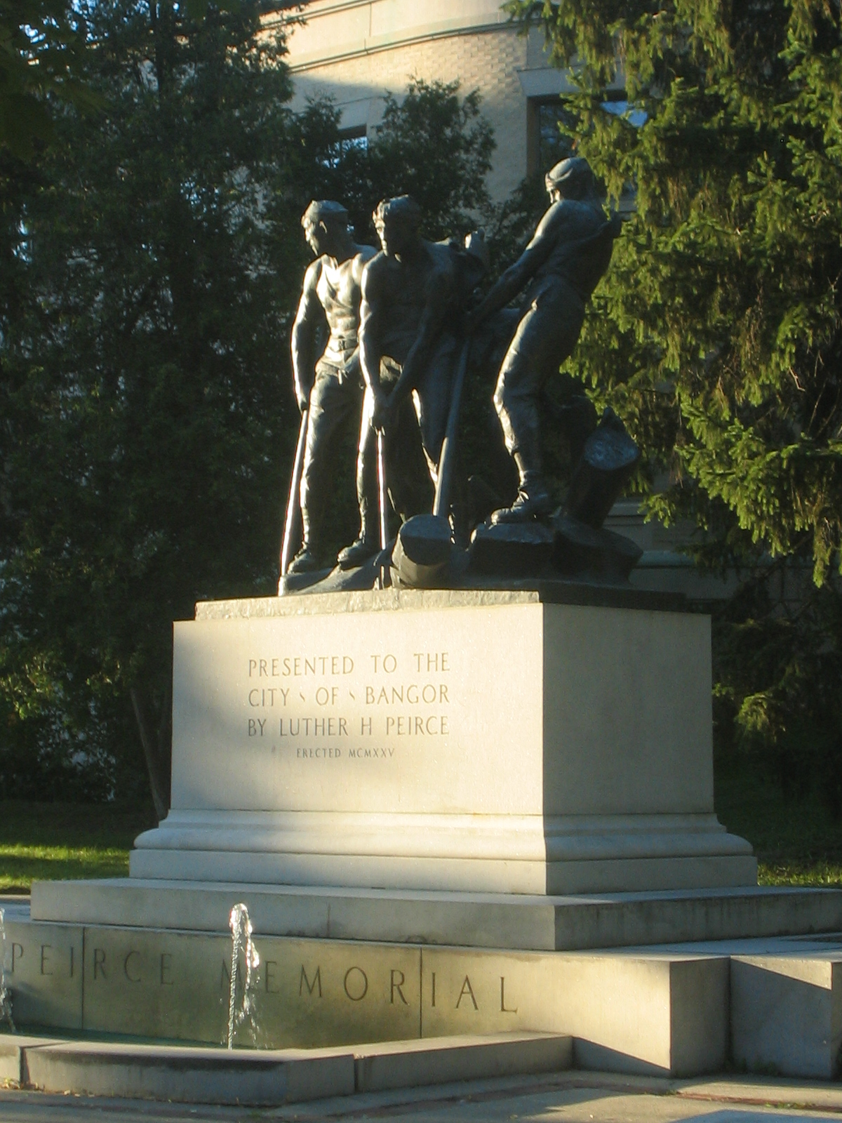 Bronze Statue "River Drivers", Pierce Memorial, Bangor, Maine, by Charles Tefft